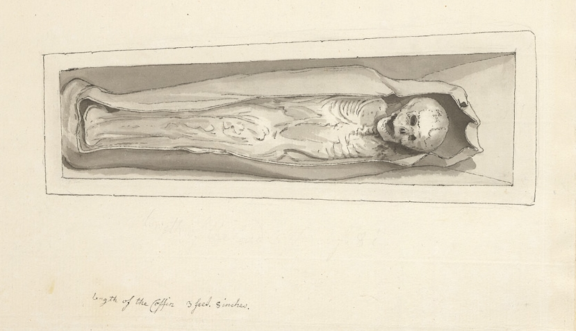 Drawing of the corpse of Hugh of Lincoln in its shrine Lincoln Cathedral